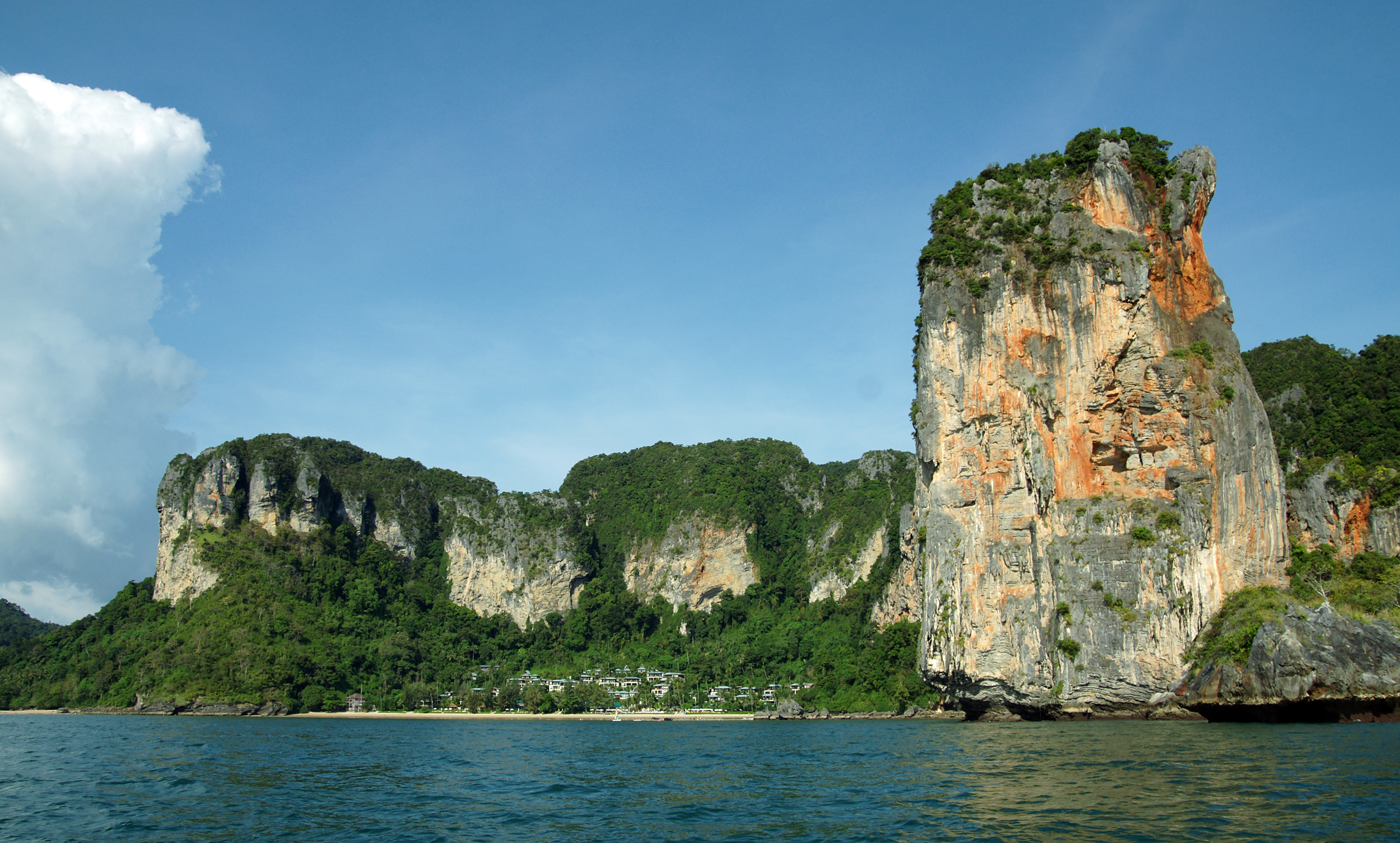 Phai Plong Bay in Krabi, Thailand.